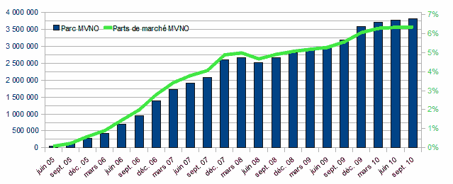 Evolution quarterly market share of MVNOs in France from June 2005 to September 2010